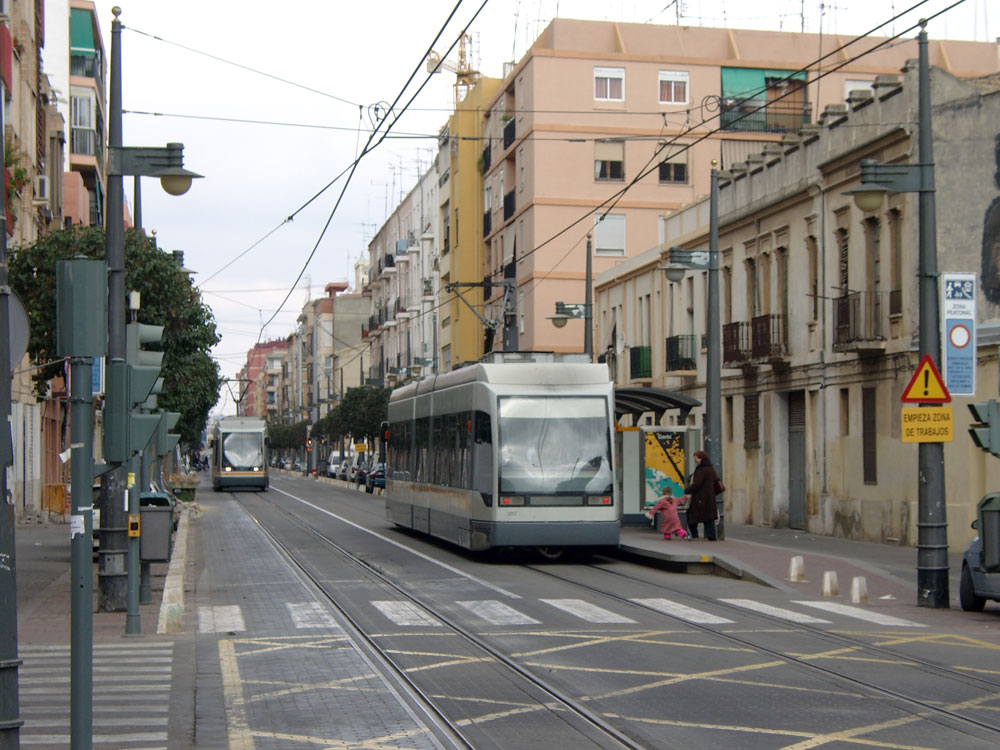 Tramway nr. 4. in Valencia.